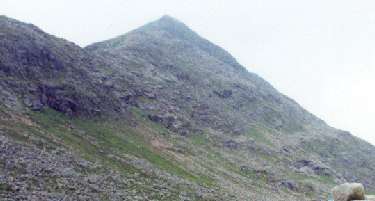 Sgor an Lochain Uaine